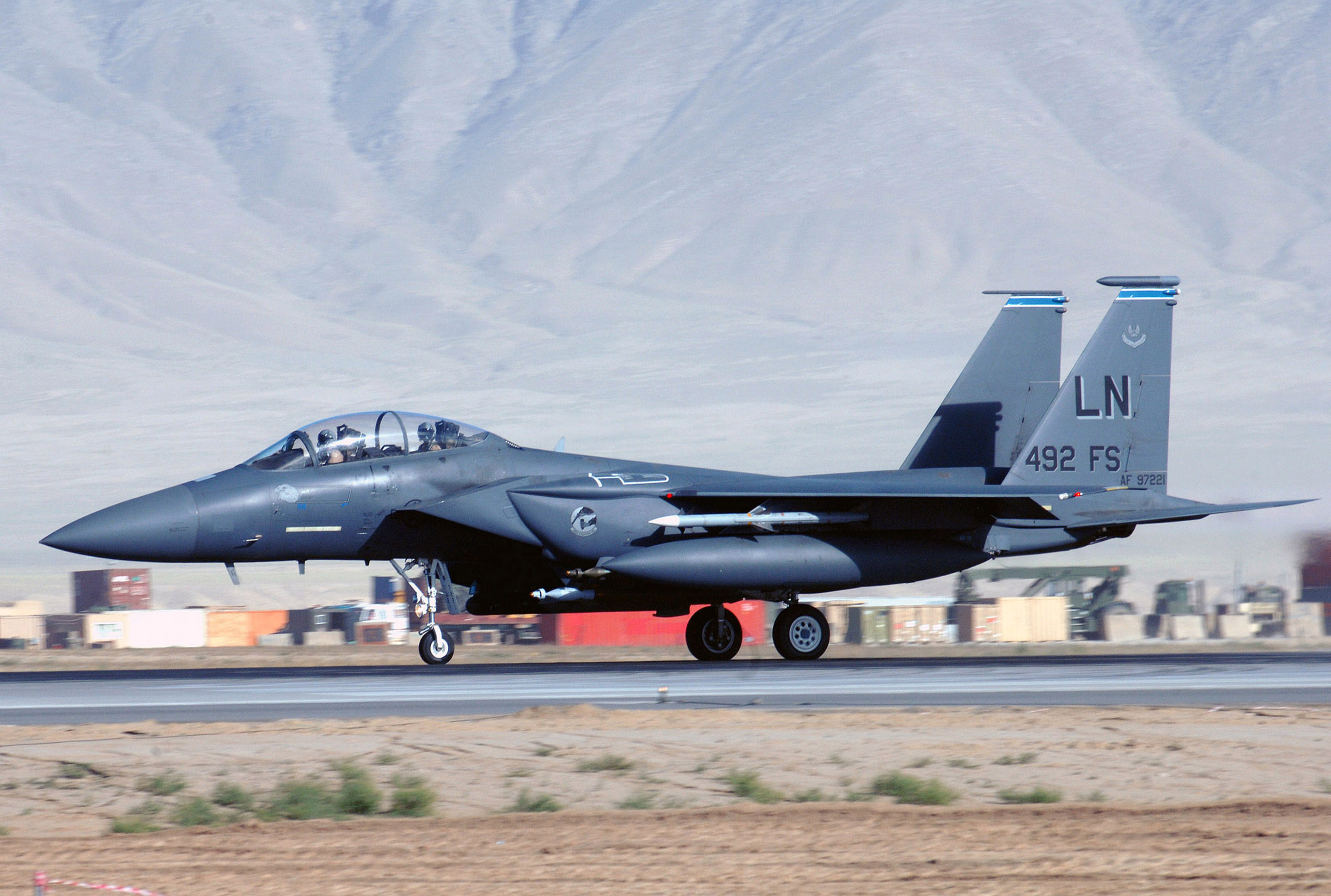 An F-15E Strike Eagle assigned to the 492nd Expeditionary Fighter Squadron takes off from Bagram Airfield, Afghanistan June 9. The 492nd EFS is deployed from Royal Air Force Lakenheath, England. (U.S. Air Force photo/Staff Sgt. Craig Seals)